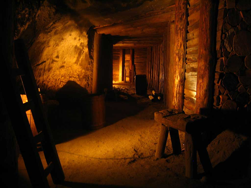 An old corridor in Wieliczka salt mine, Poland.